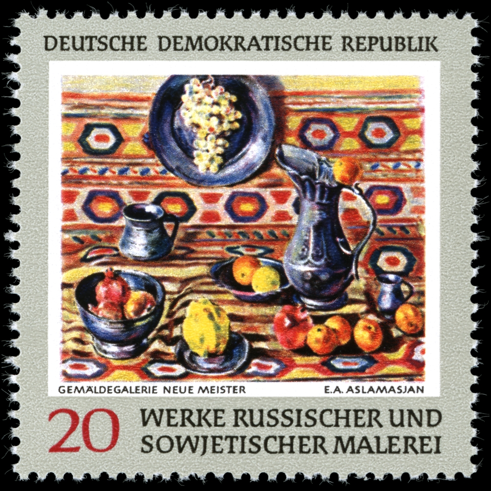 Stamp description / Briefmarkenbeschreibung Artist: Eranui Arschakowna Aslamasjan Ausgabepreis: 20 Pfennig First Day of Issue / Erstausgabetag: 10. Dezember 1969 Auflage: 12.000.000 Entwurf: Naumann und Dutschendorf Druckverfahren: Rastertiefdruck Michel-Katalog-Nr: Ländercode-MiNr: 1530 Licensing This file is most likely NOT in the public domain. It has been marked for review, and will be deleted in due course if the review does not find it to be in the public domain.This file was previously considered to be in the public domain as a German stamp; it is possible that it is in the public domain for other reasons, in which case a new rationale will be applied as part of the review process. See below for the previous rationale. Previous public domain rationale, no longer applicable This stamp is in the public domain in Germany because it was released by the postal administration of the German Democratic Republic or the Soviet occupation zone (Deutschen Post der DDR) whose legal successor is the Federal Republic of Germany. Thus it is an official work according to German copyright law (§ 5 Abs. 1 UrhG).